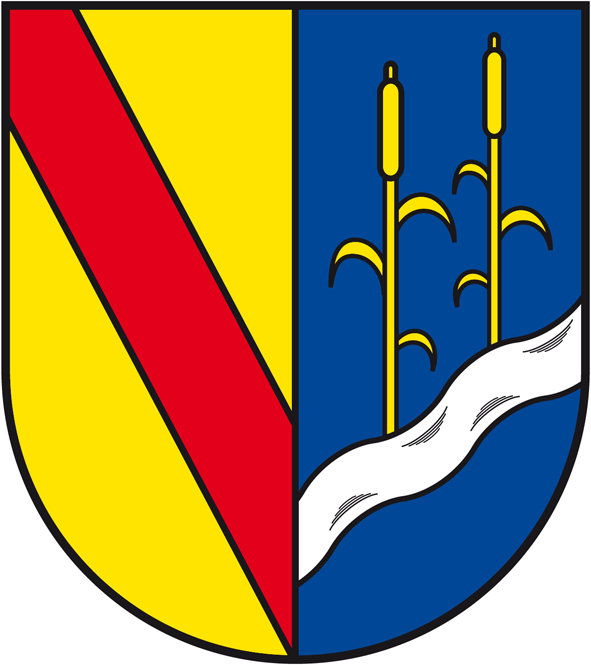 Coat of arms of Rohrbach